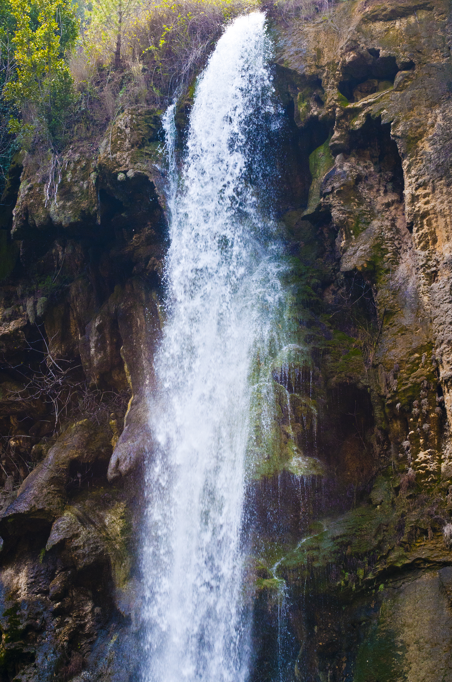 A view of Waterfall Bahçecik in Canyon Kapıkaya. Karaisalı - Adana, Turkey.